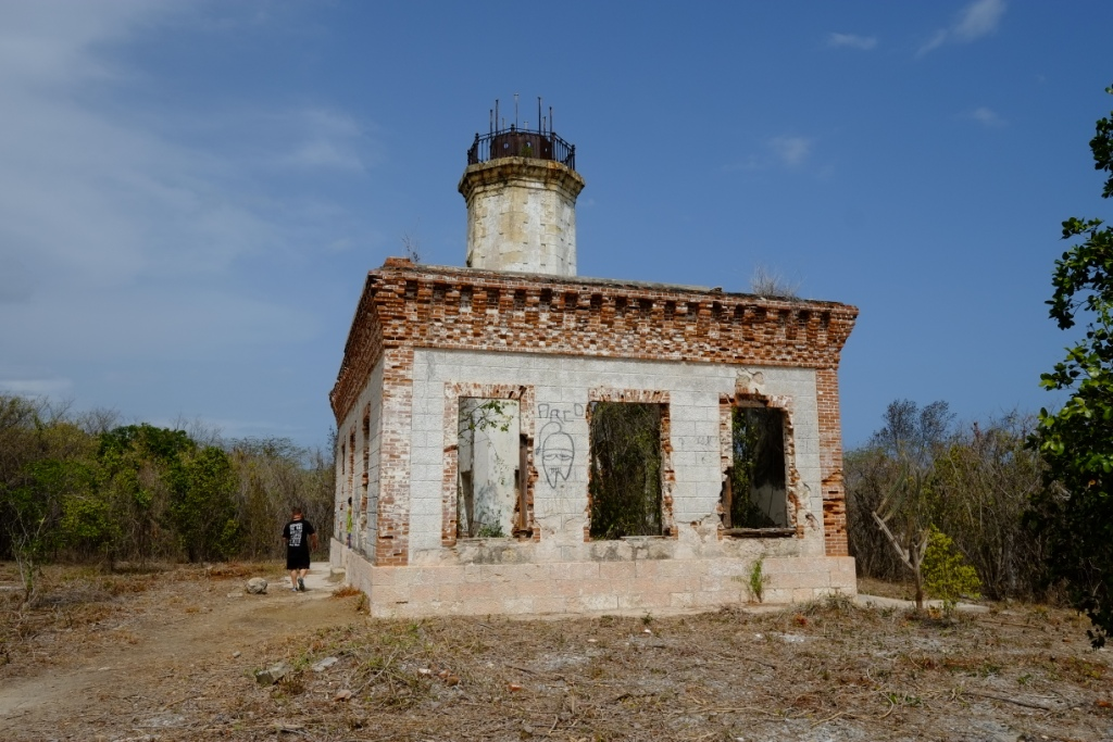 Guanica Lighthouse currently today